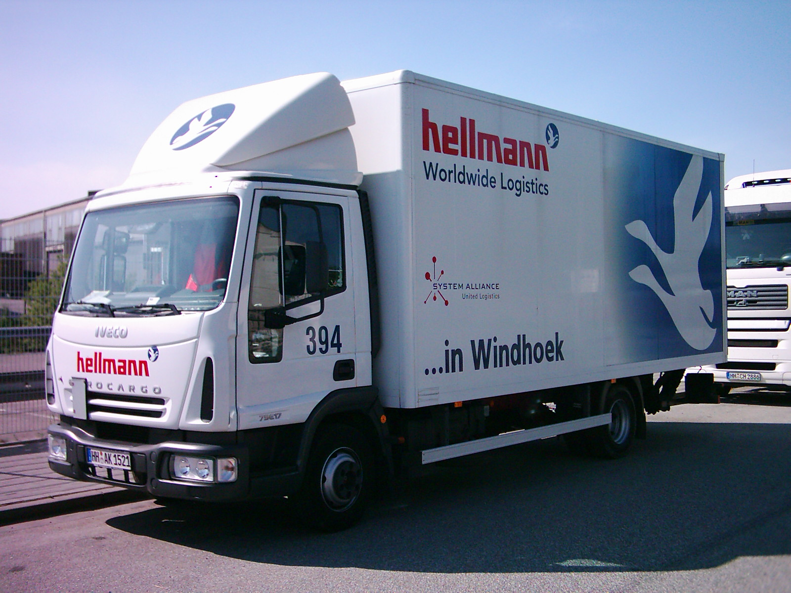 Truck of Hellmann Worldwide Logistics in Hamburg, Germany.